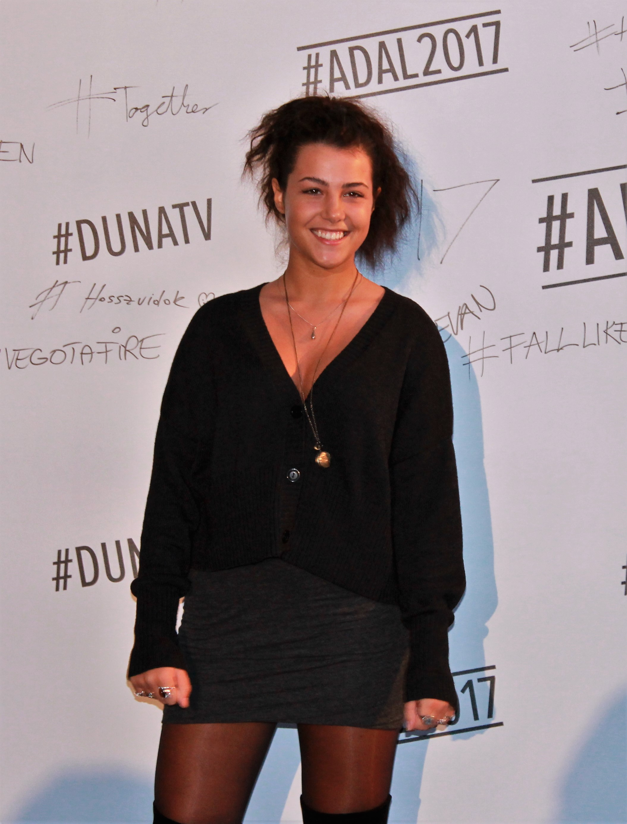 A Dal 2017 participant: Andi Tóth